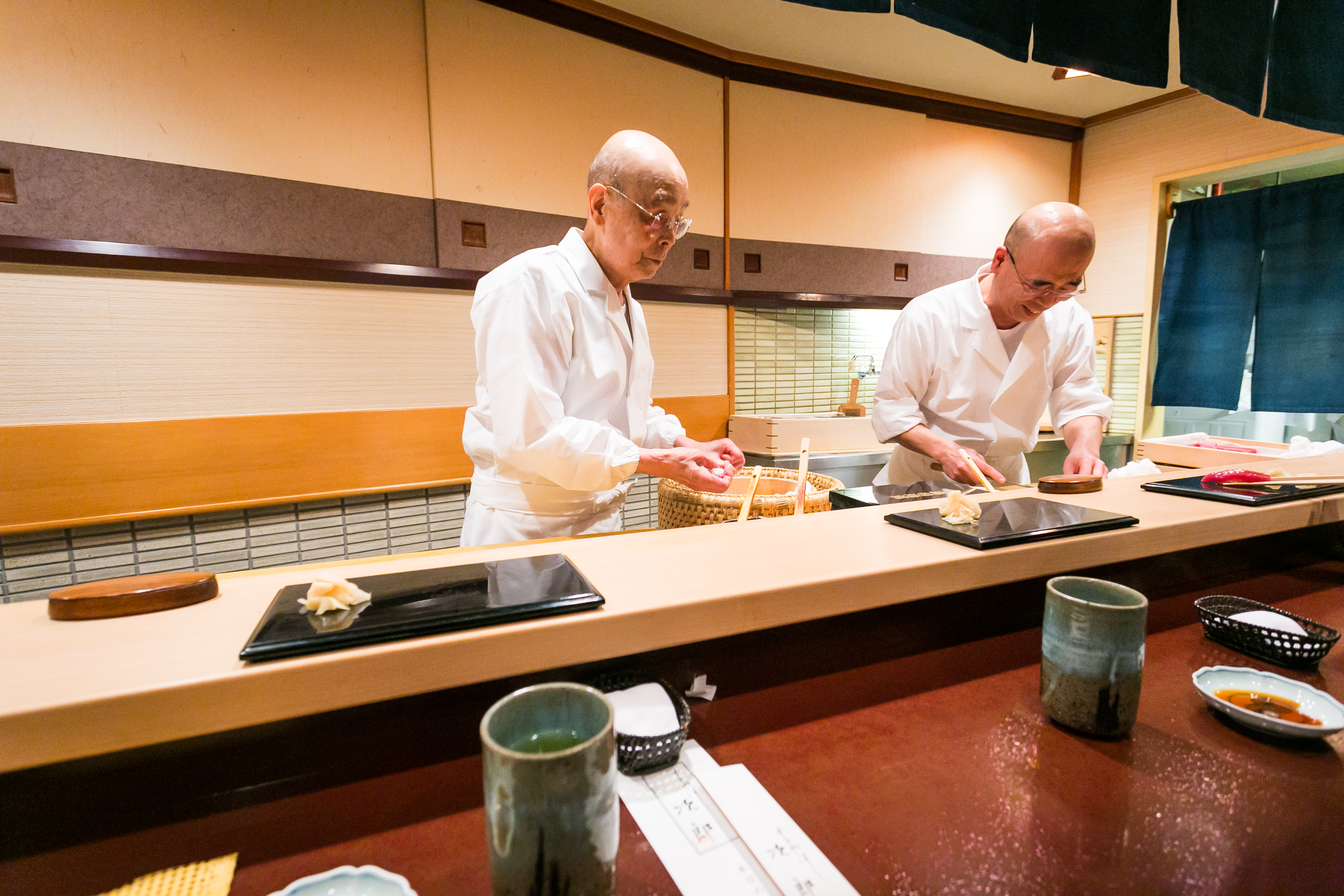 Sukiyabashi Jiro, Tokyo, JP Date Visited: December 25, 2013 City Foodsters Facebook | Twitter | Instagram